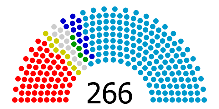 Senate of Spain after 2011 election.